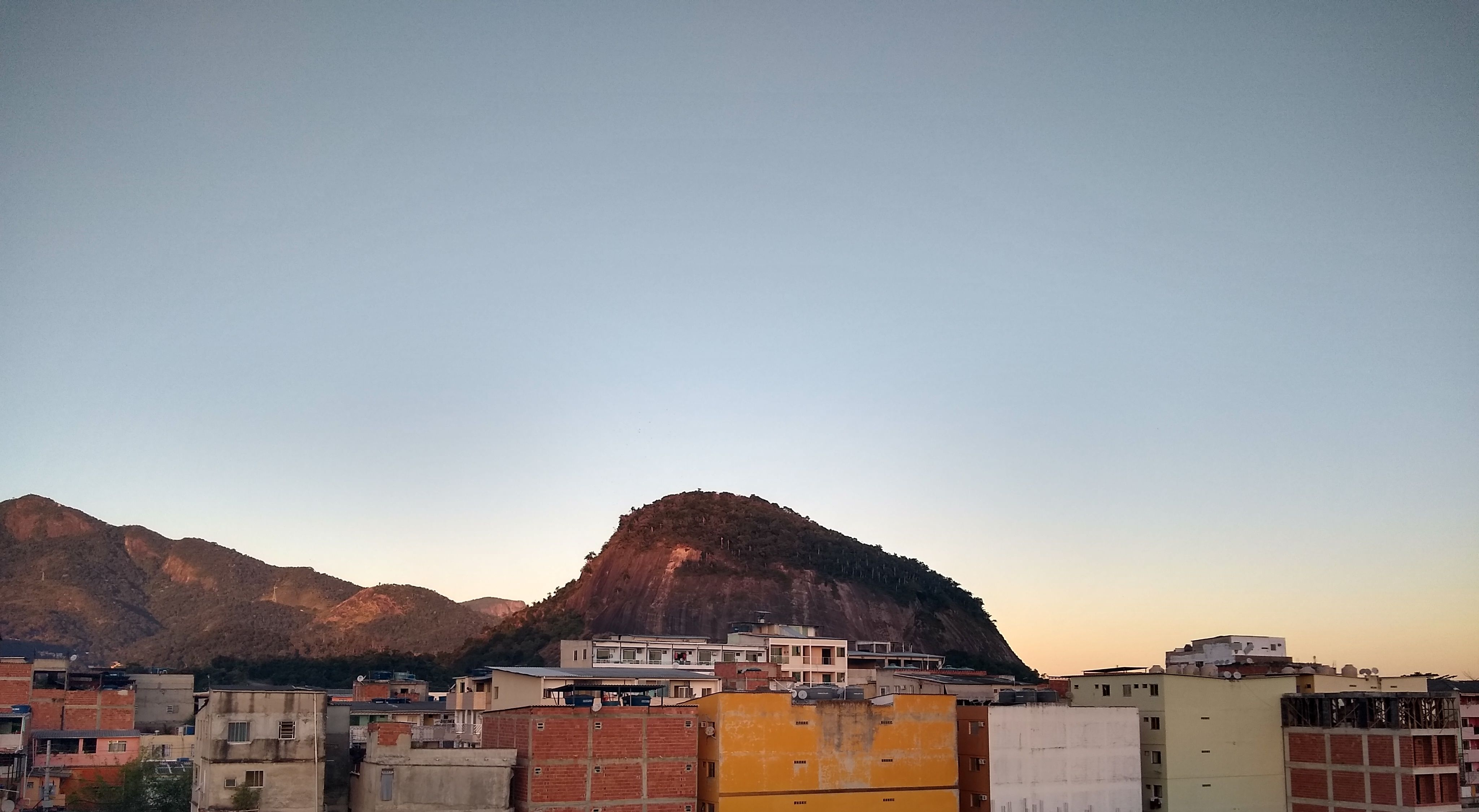 monolith in Rio de Janeiro